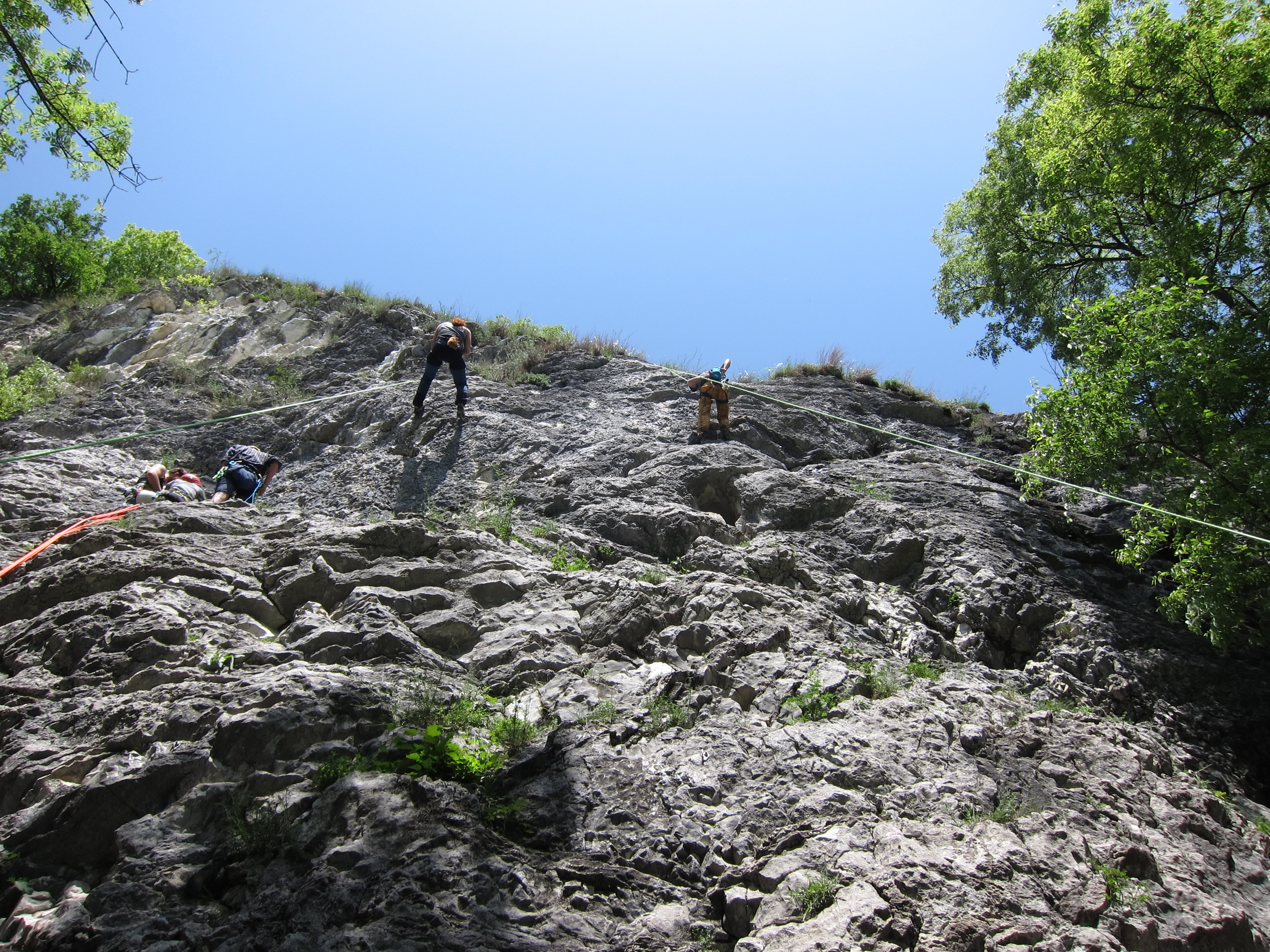 Limestone rock wall prepared with blots and fixed belay for purpose of rock sport climbing. The cliff named "Falesia del Picuz" is located in the town Sangiano, (Varese, Italy). Picture was taken on the 6th of May 2018. 2018-05-06